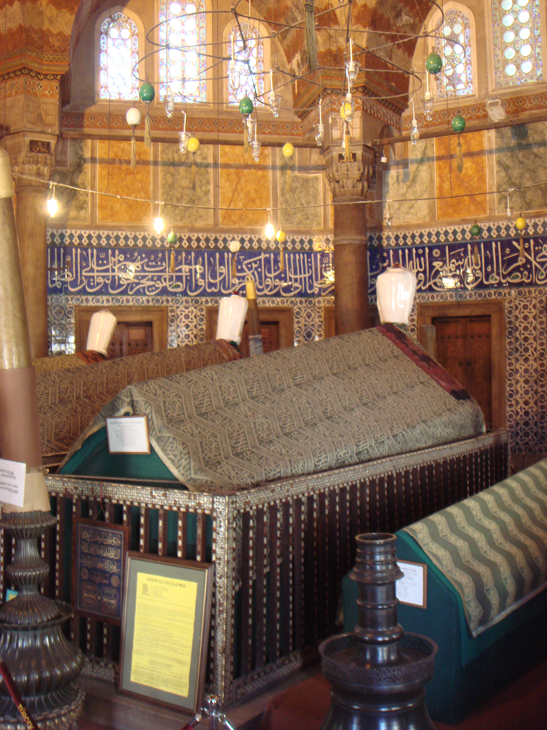 Coffin_of_Suleiman_the_Magnificient